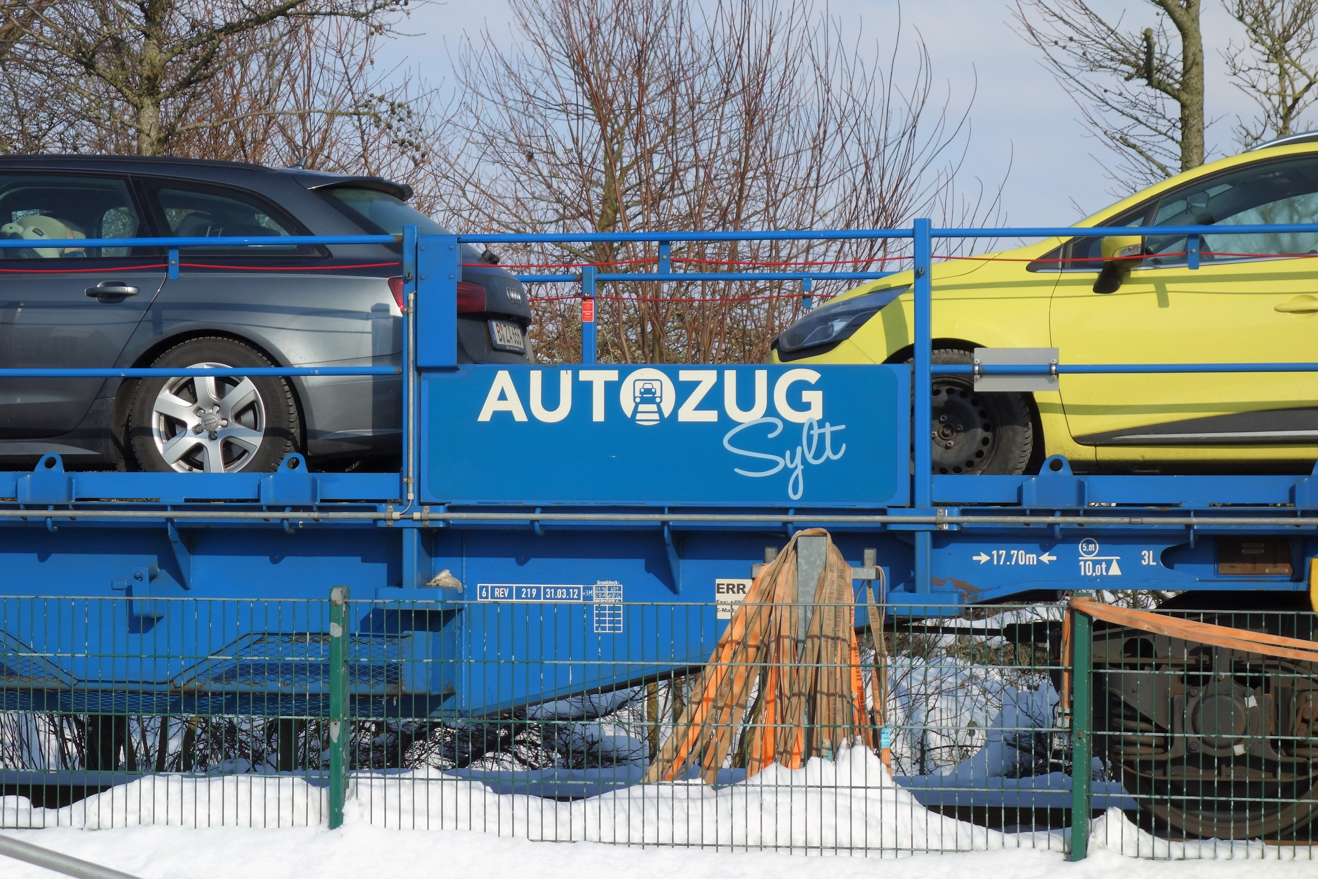 Design of a blue Autozug Sylt flat railway wagon